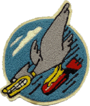 Emblem of the 600th Bombardment Squadron (World War II)